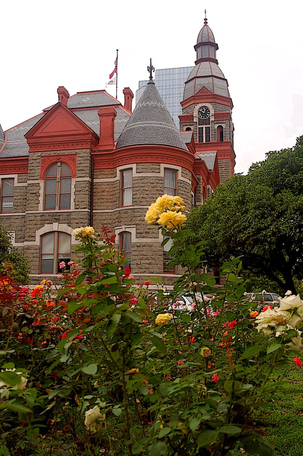 Our Chamber of Commerce used to call Little Rock the "City of Roses." I'm not sure what happened to that. We still have lots of roses.